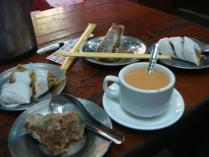 Tea and light food from an average Myanmar Tea house. Springroll with pork and steamed pork with Myanmar traditional Tea.